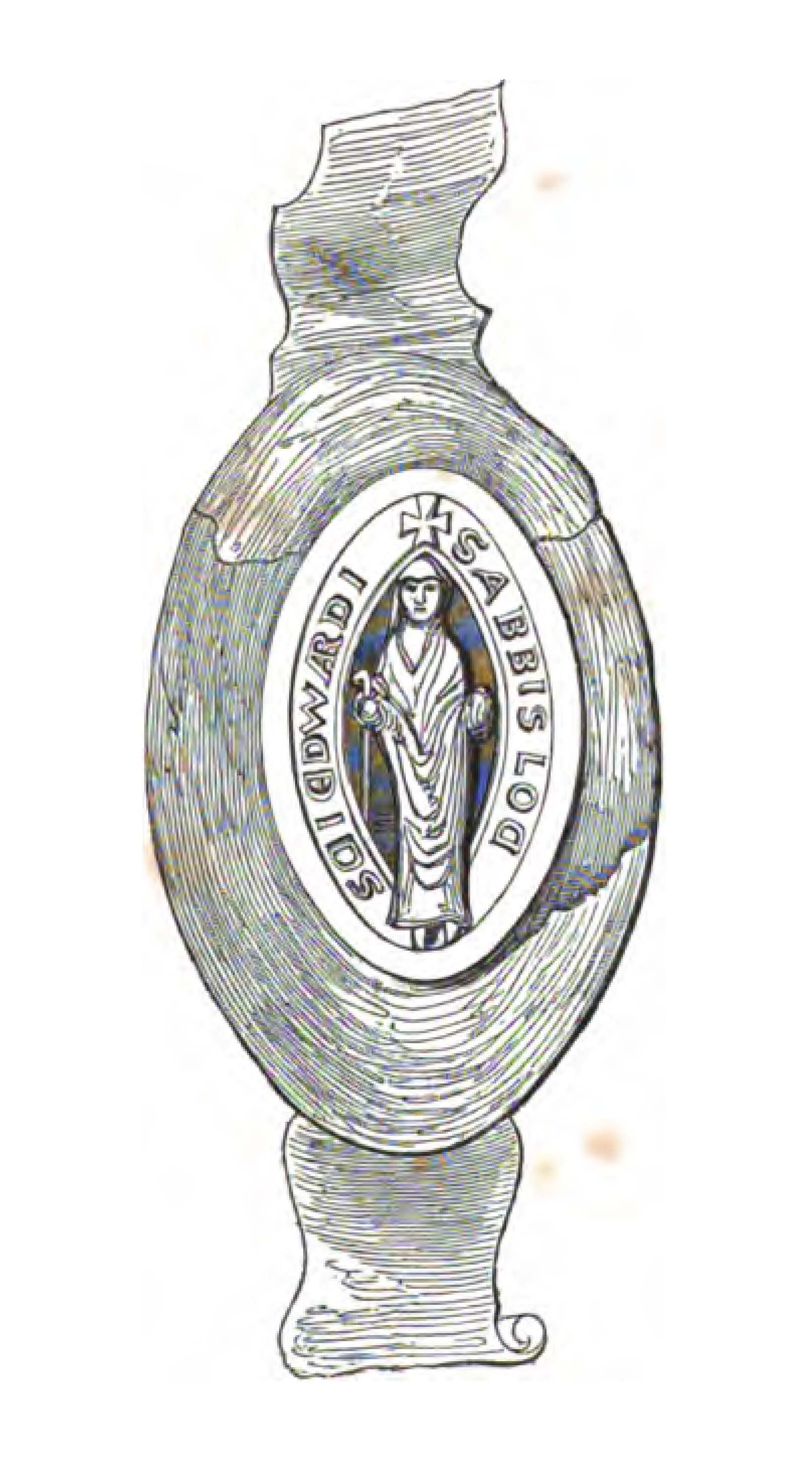 The private seal of the abbots of Netley, depicting an abbot. The Latin inscription reads "Sigillum Abbatis Loci Sancti Edwardi": "The seal of the Abbot of Saint Edwardstowe". Saint Edwardstowe was an alternative name for Netley in the middle ages. This example comes from a deed of 1330.